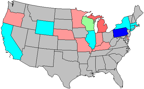 Summary of party change of U.S. house seats in the 1934 House election. Stripes indicate a tie between the gains of two or more parties. Legend: 6+ Democratic seat pickup 3-5 Democratic seat pickup 1-2 Democratic seat pickup 1-2 Republican seat pickup 3-5 Republican seat pickup 6+ Republican seat pickup 1-2 Progressive seat pickup 3-5 Progressive seat pickup 1-2 Farmer-Labor seat pickup 3-5 Farmer-Labor seat pickup Note: years ending in 2 may have inconsistent results due to redistricting.